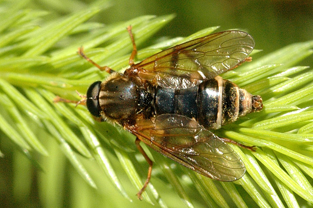 Picture taken in Commanster, Belgian High Ardennes . Species: male Coenomyia ferruginea